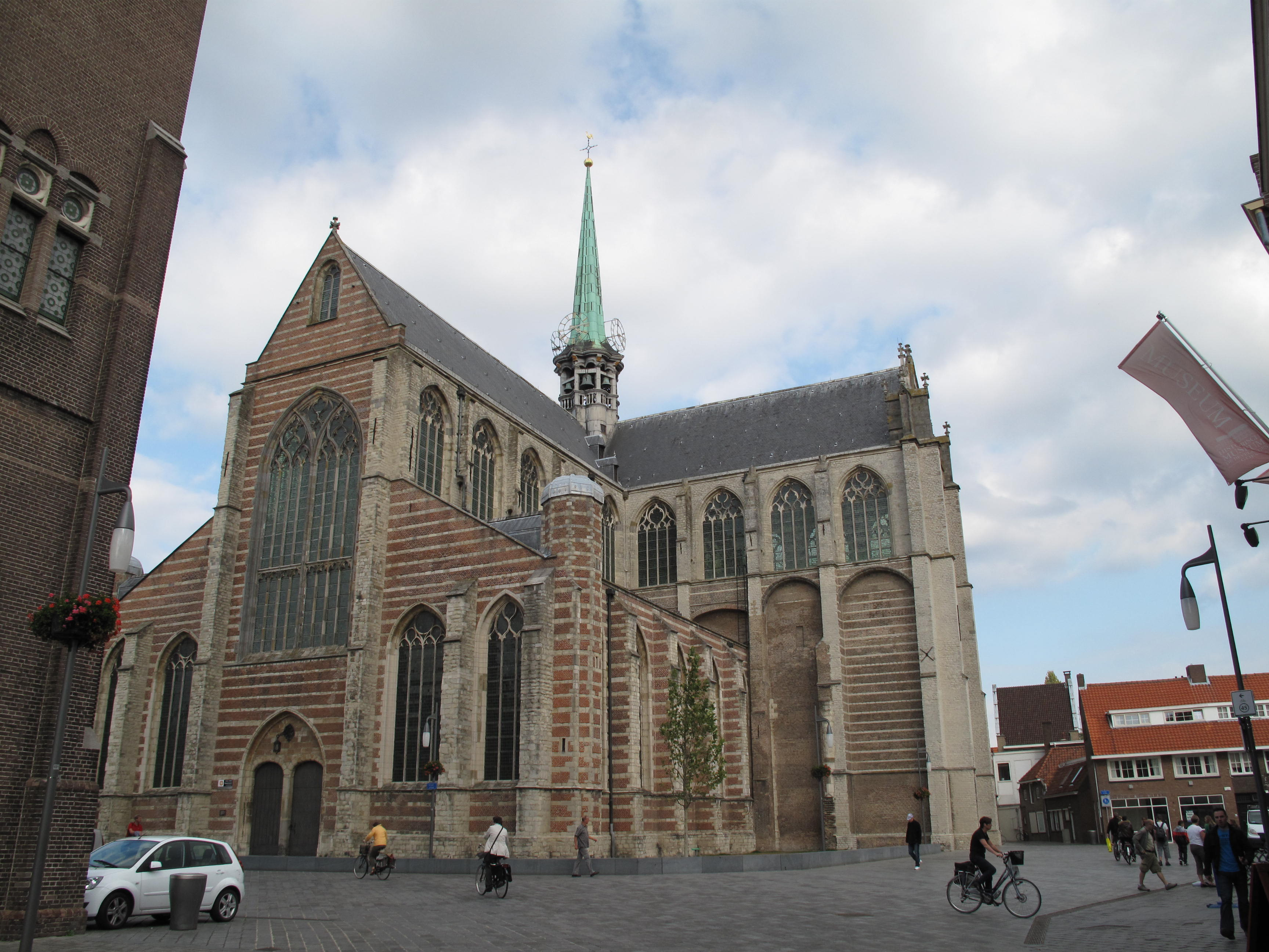 Goes, church: Grote of Maria Magdalenakerk